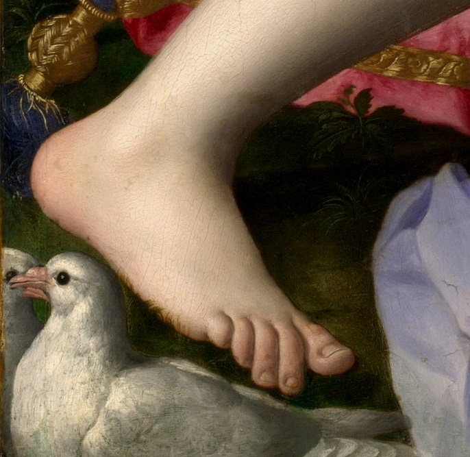 Foot detail from Venus, Cupid, Folly and Time by Agnolo Bronzino.